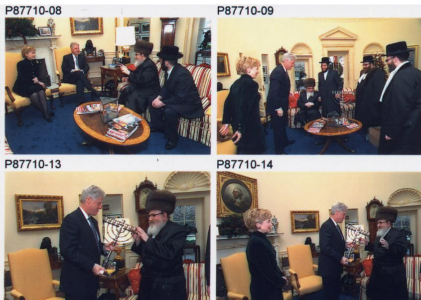 Rabbi David Twersky with president Bill Clinton, on December 22, 2000, in the Oval Office in the White House. The Rabbi of Square donates a Hanuka Menorah to the President.